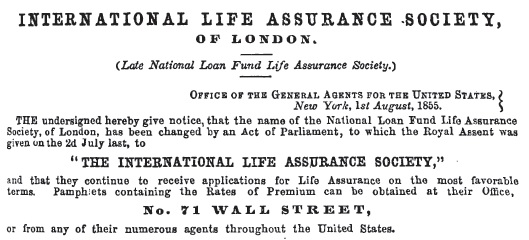 Advertisement in Volume 3 (1856) of the United States Insurance Gazette and Magazine, page 383.